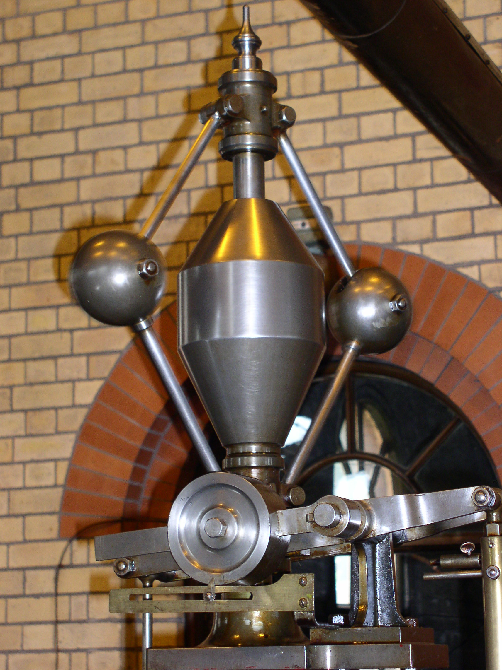 The Ashton Frost engine at Mill Meece Pumping Station. This Porter governor controls the speed of the engine by altering the cut-off of the trip-gear operated Corliss valves on the high pressure cylinder.